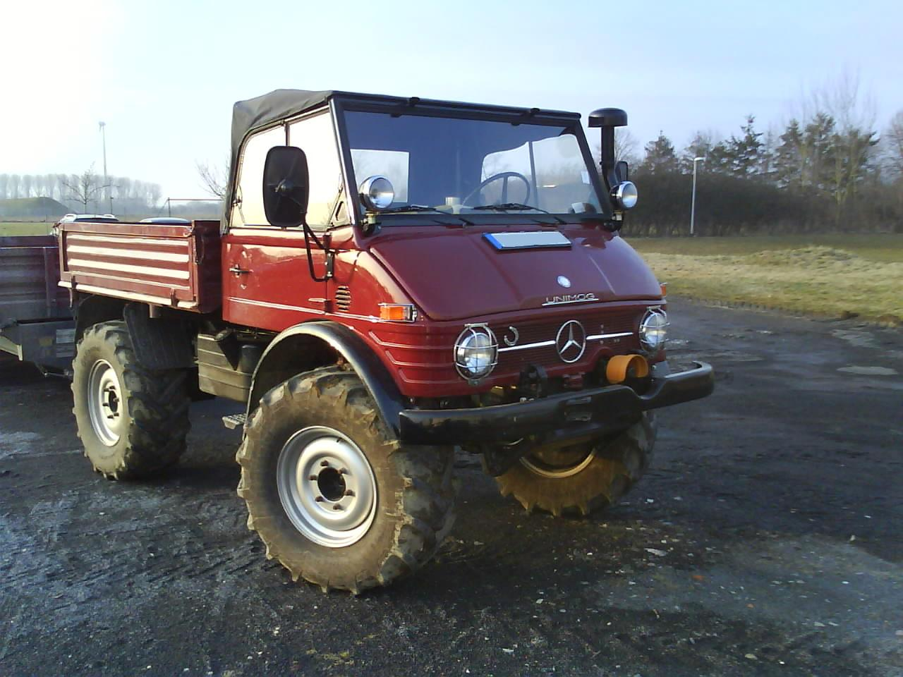 Unimog photographed at Münster Nienberge Unknown